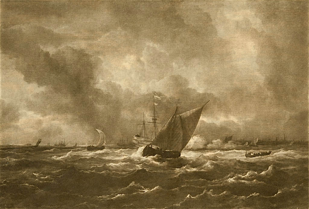 'A Stormy Sea', by Jacob van Ruisdael (c. 1670), a painting possibly destroyed in the Friedrichshain flak tower fire in Berlin, at the end of the Second World War (May 1945). The painting belonged to the collections of the Kaiser-Friedrich-Museum, now the Bode-Museum of Berlin.